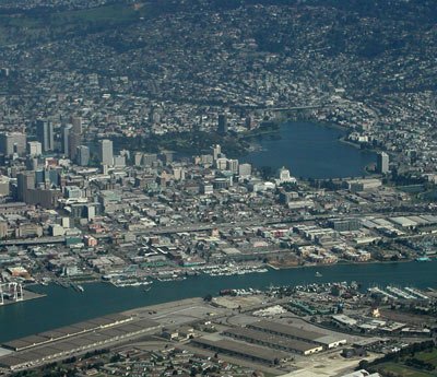 Aerial photo looking east over downtown Oakland and Lake Merritt. In the immediate foreground is part of the island of Alameda. Photo taken by Aran Johnson (me) from window of an airplane taking off from Oakland Airport. April 2002.